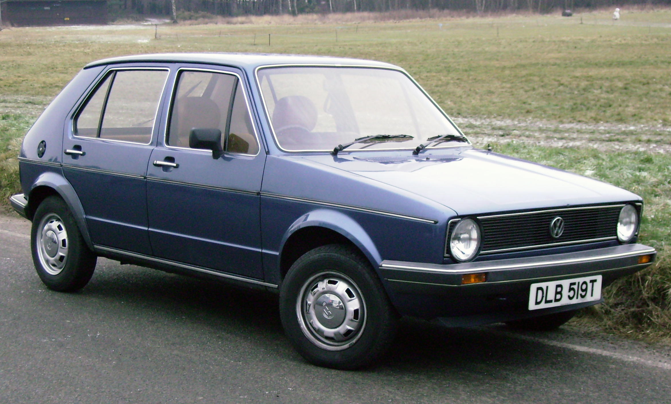 29 yr old VW Golf(GLS)...Reigate Heath,Jan 2009